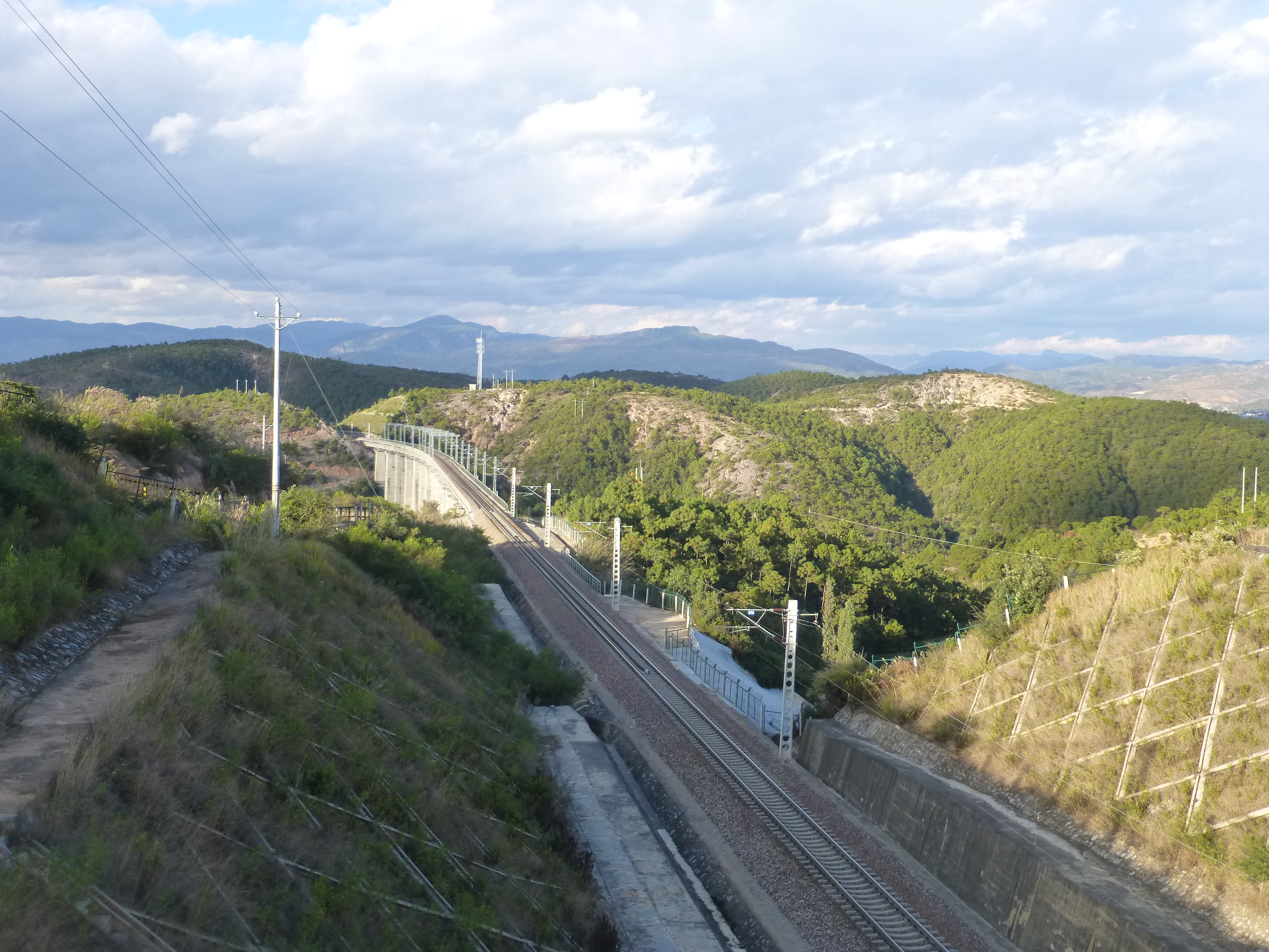 On Hwy S214 in the northerrn near Xiangmuqiao Village, between Xiangmuqiao Village and Yema Village. The Yuxi-Mengzi Railway is a bit east of the highway, and often can be seen, as it appears from one tunnel and then disappears in the next one.